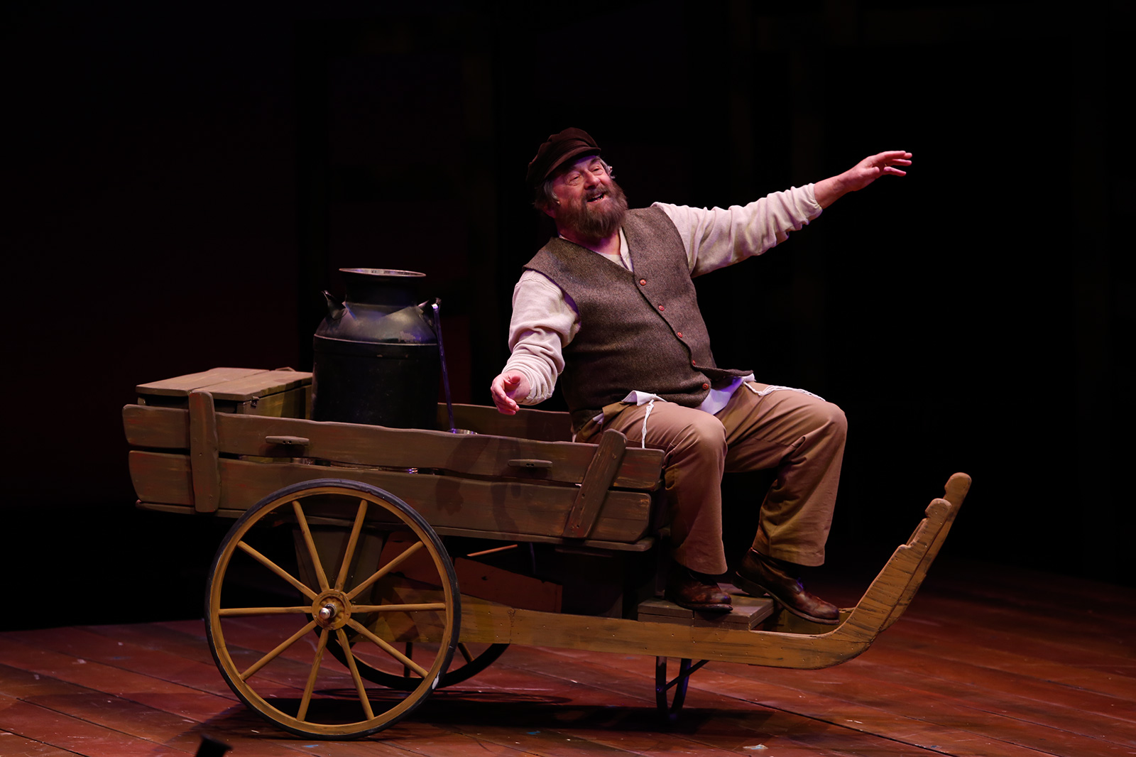 Fiddler On the Roof